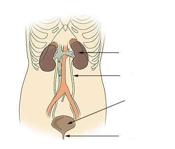 Language neutral version of Image:Illu urinary system.jpg